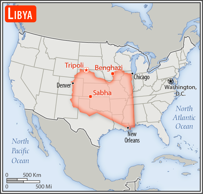 Comparison of the areas of two country. The area of Lybia with biggest cities (red) overlay the area of the United States of America (gray background).